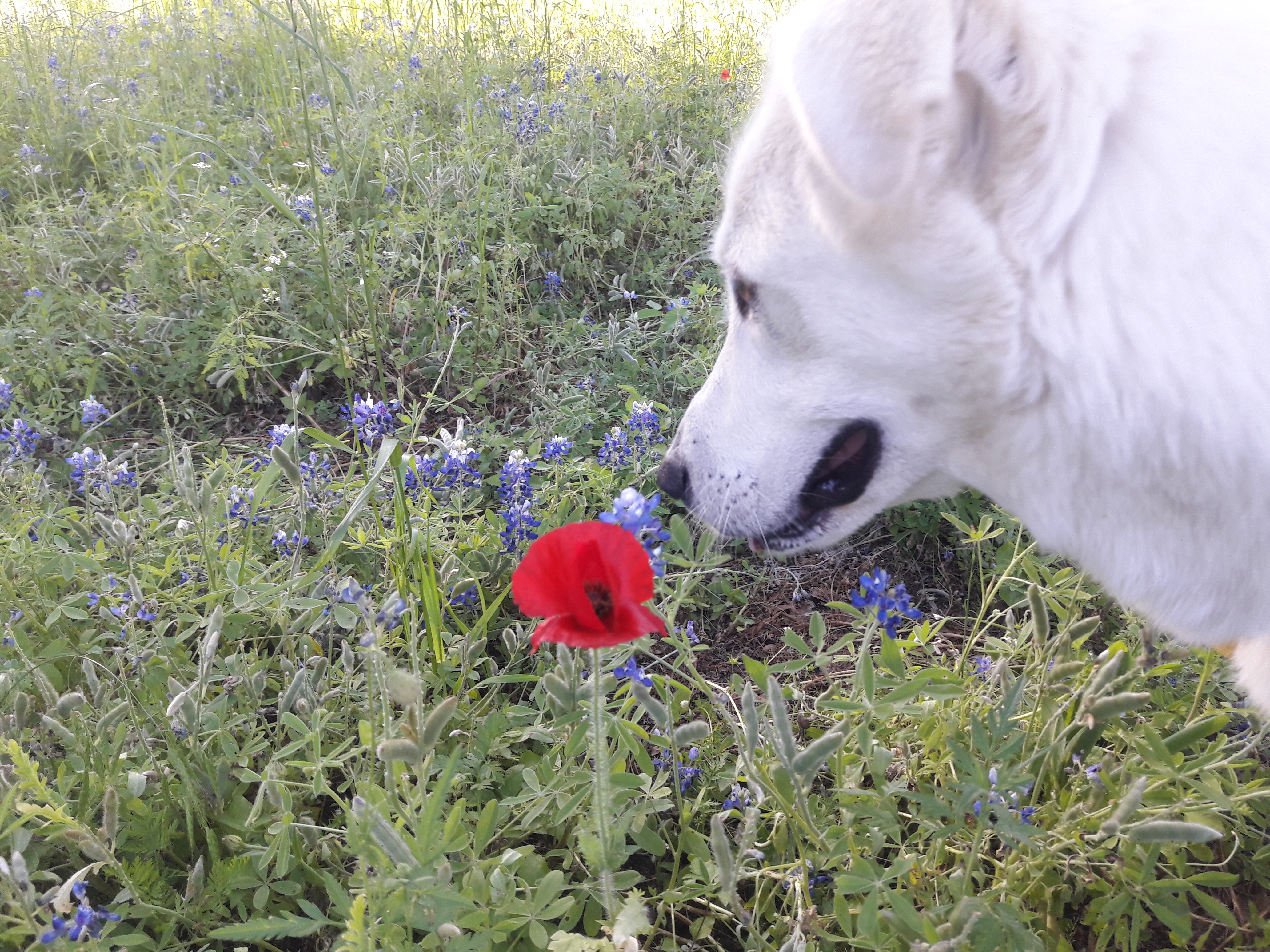 Luna White Pyriness dog smells red flowers Arlington Texas 2020